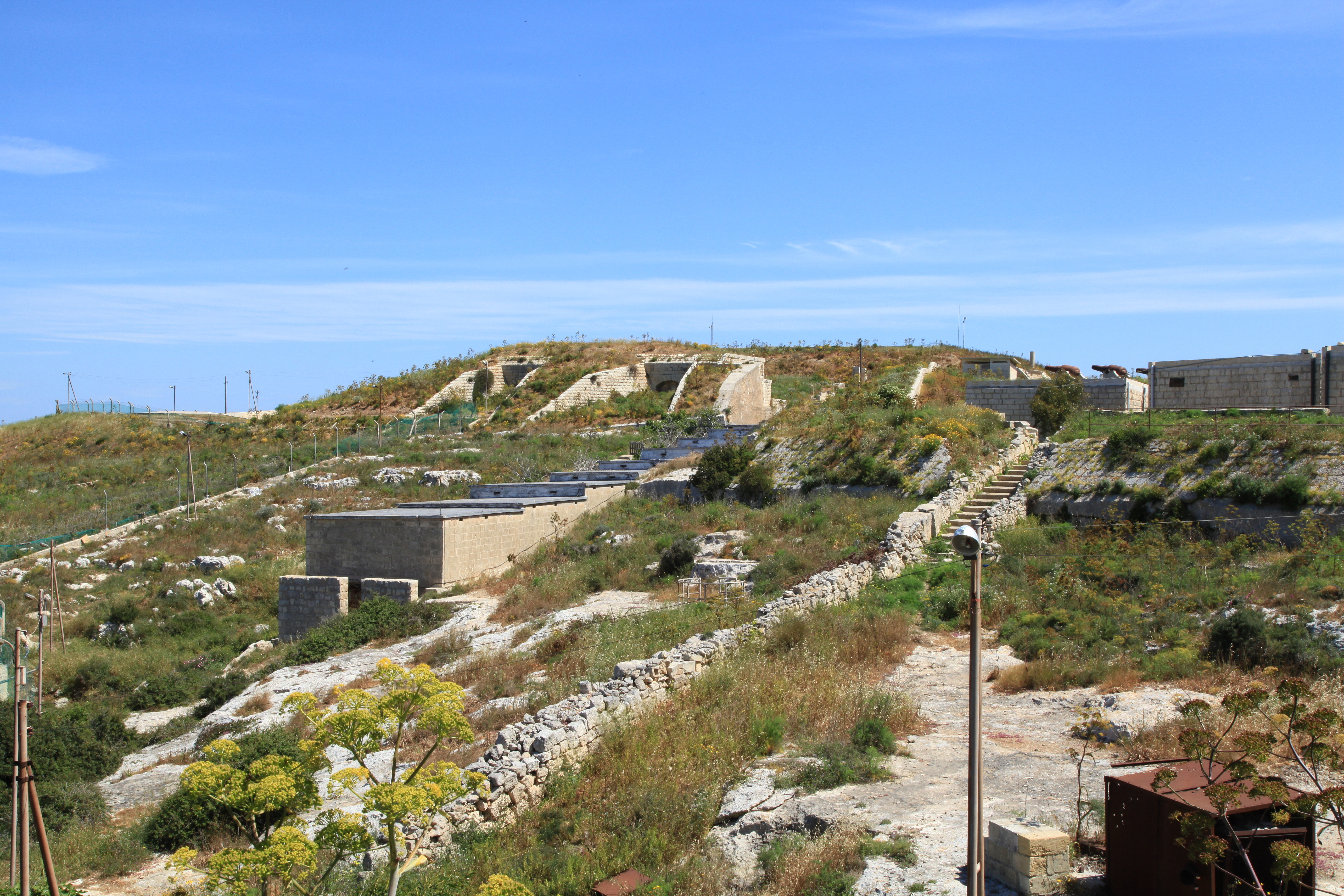 Fort Mosta in Mosta, Malta